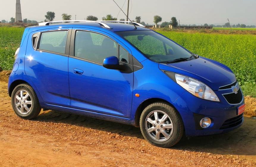 Chevrolet Beat Spark M300